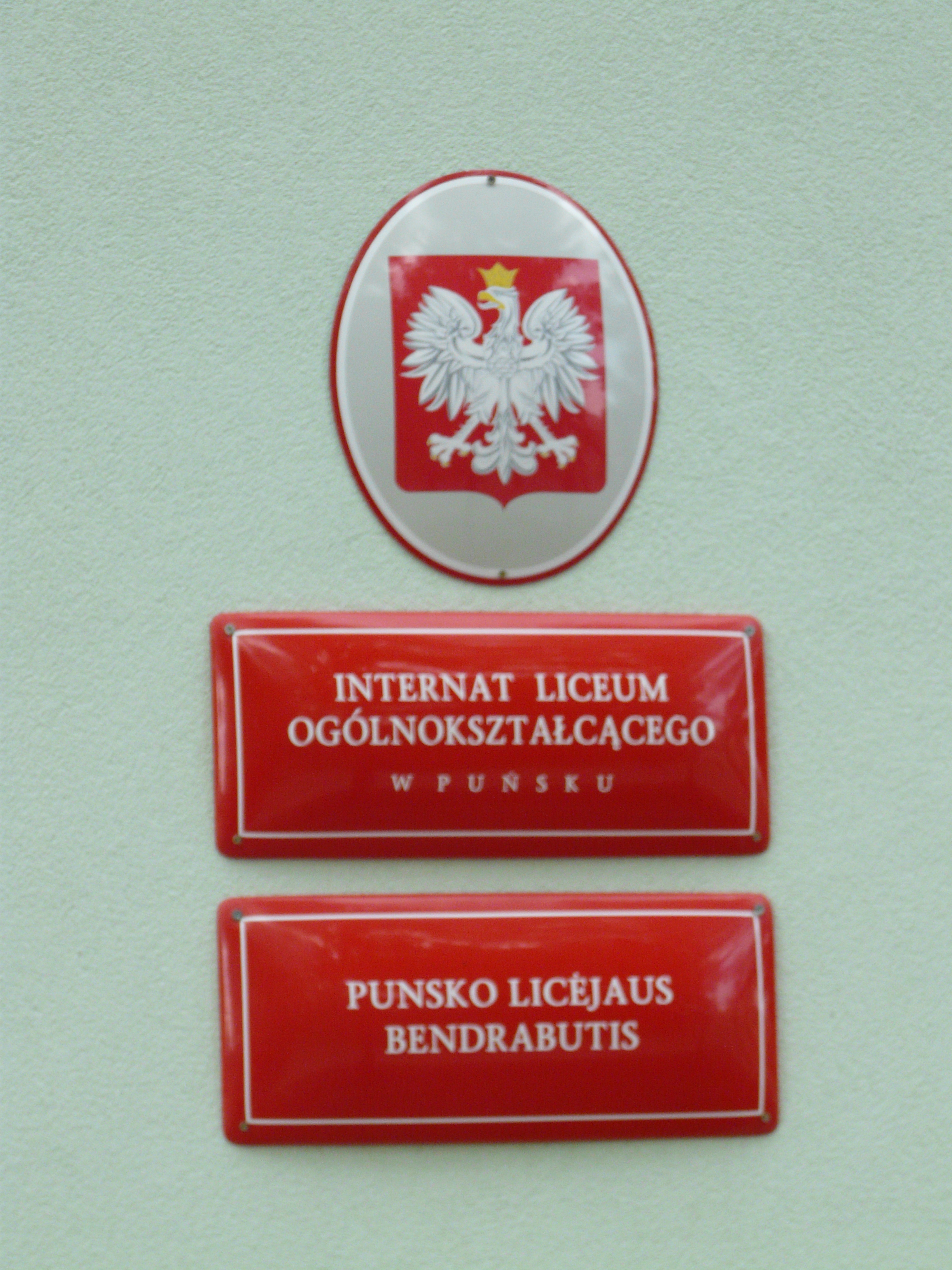 Puńsk. Bilingual Polish-Lithuania signs in Poland